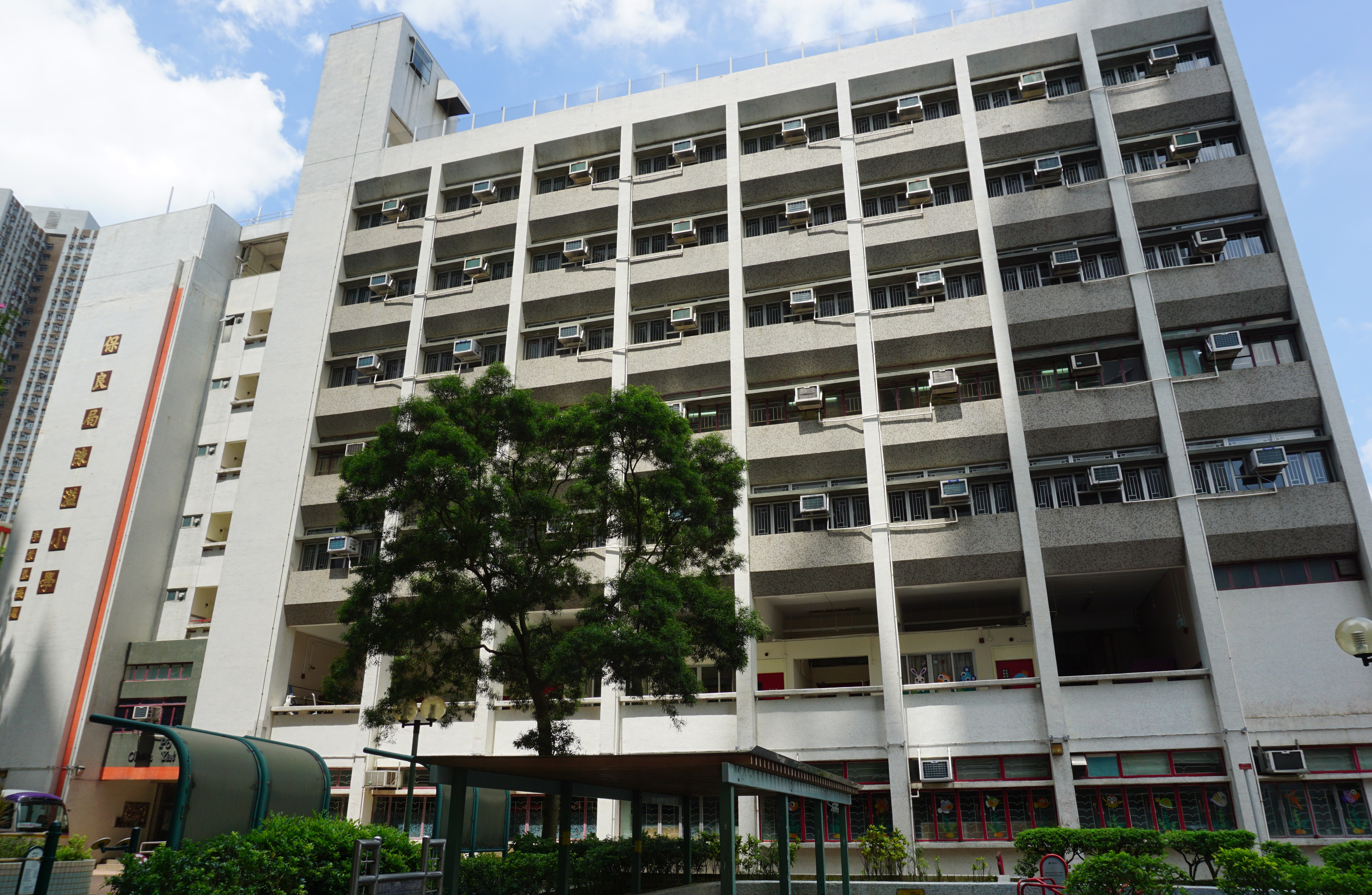 Po Leung Kuk Chan Yat Primary School in Tsing Yi, Hong Kong.